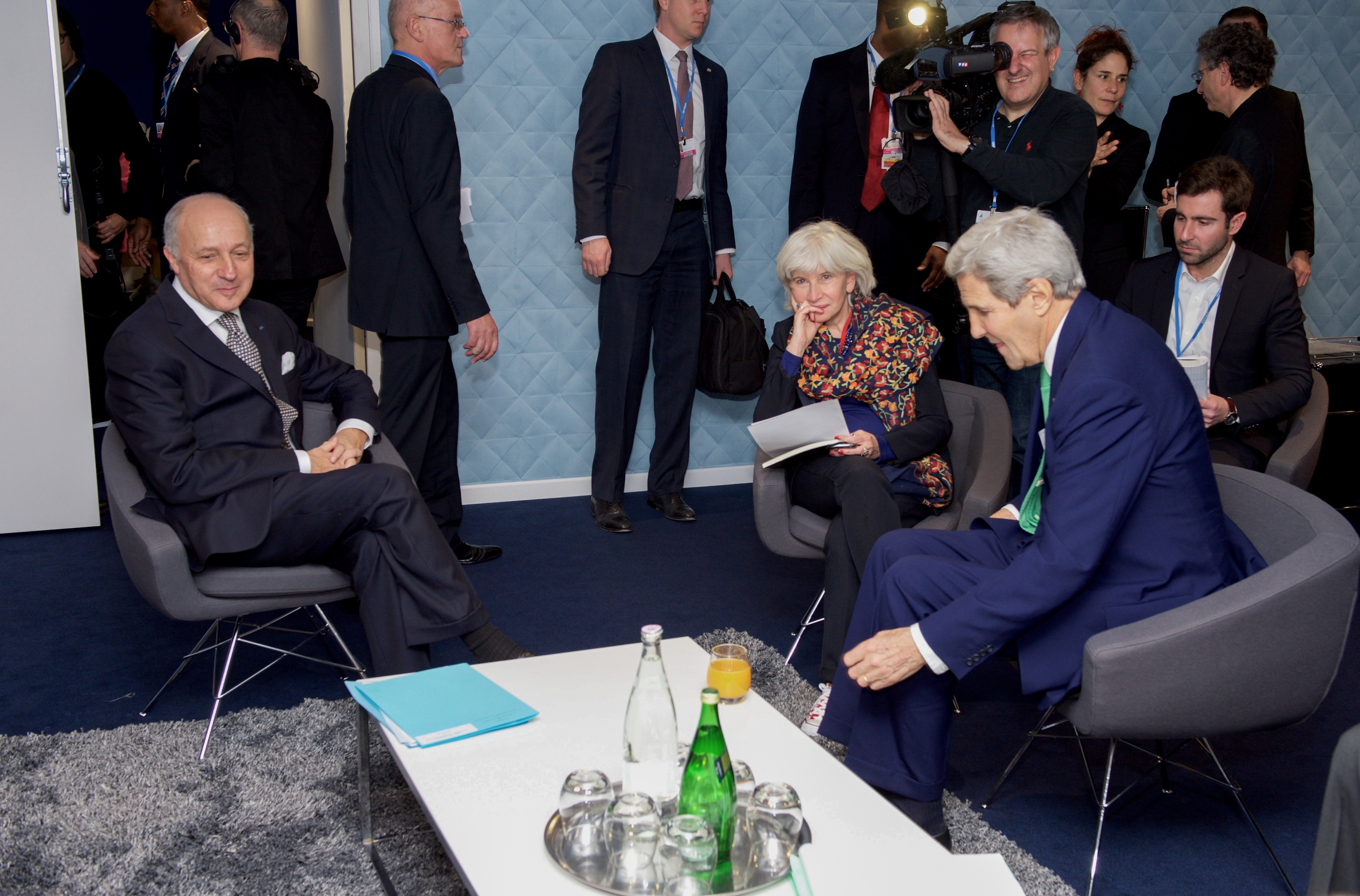 U.S. Secretary of State John Kerry meeting with French Foreign Minister Laurent Fabius and French Climate Change Adviser Laurence Tubiana at the COP21 Venue at Le Bourget Airport in Paris, France, on December 7, 2015. [State Department photo/ Public Domain]